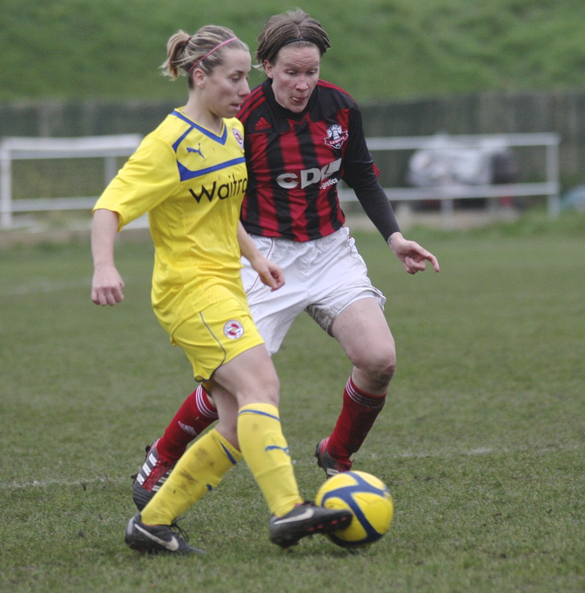 Rebecca Jane (left) playing for Reading v Lewes 6/1/13